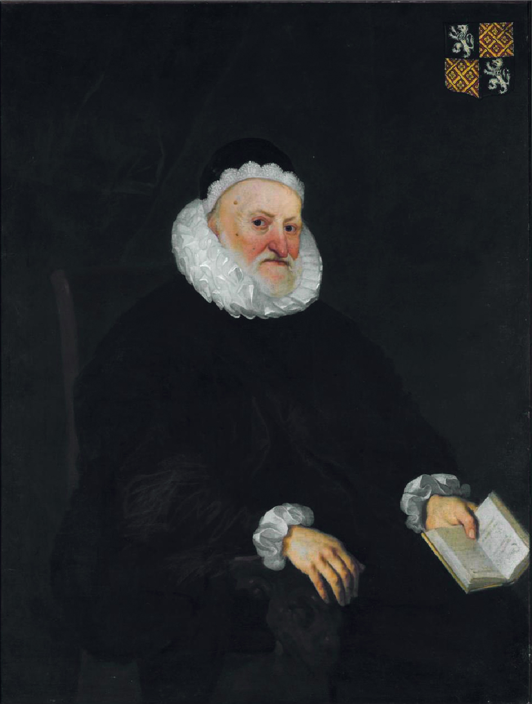 Portrait of Ranulph Crewe (1558-1646)